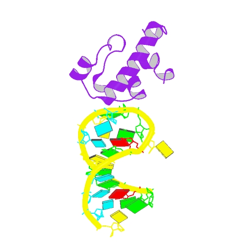 Crystal structure of Vts1_SRE complex Other information A PDB structure file